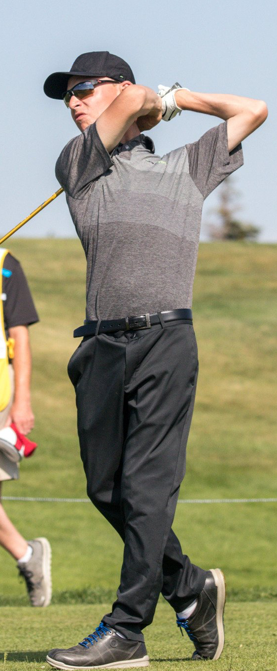 Kyle Watches a Drive on the Mackenzie Tour in 2017